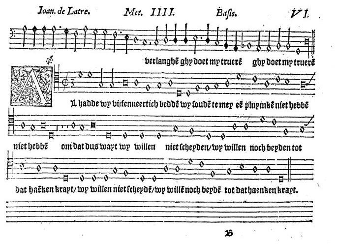 Sheet music with the Dutch song "Al hadde wy vijfenueertich beddê" from "Dat ierste boeck vanden Niewe Duytsche Liedekens", printed in Maastricht in 1551 by Jacob Baethen